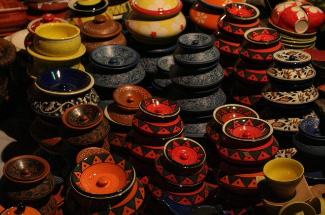 Traditional pottery on display in Dilli Haat. ગુજરાતી: દિલ્લી હાટમાં પ્રદર્શનમાં મૂકેલું પરંપરાગત માટીકામ.